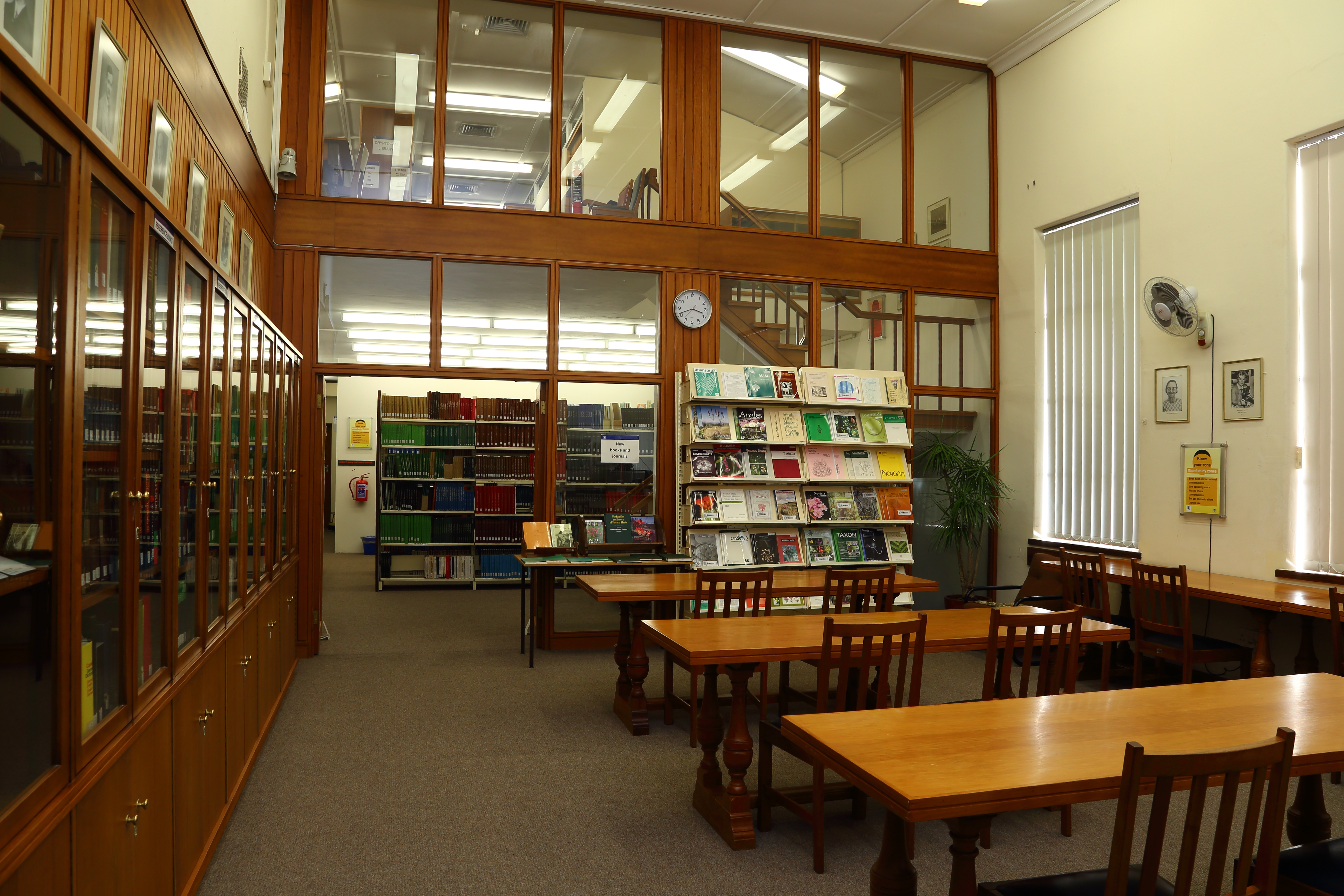 Bolus Herbarium Library in the Botany Building at the University of Cape Town.